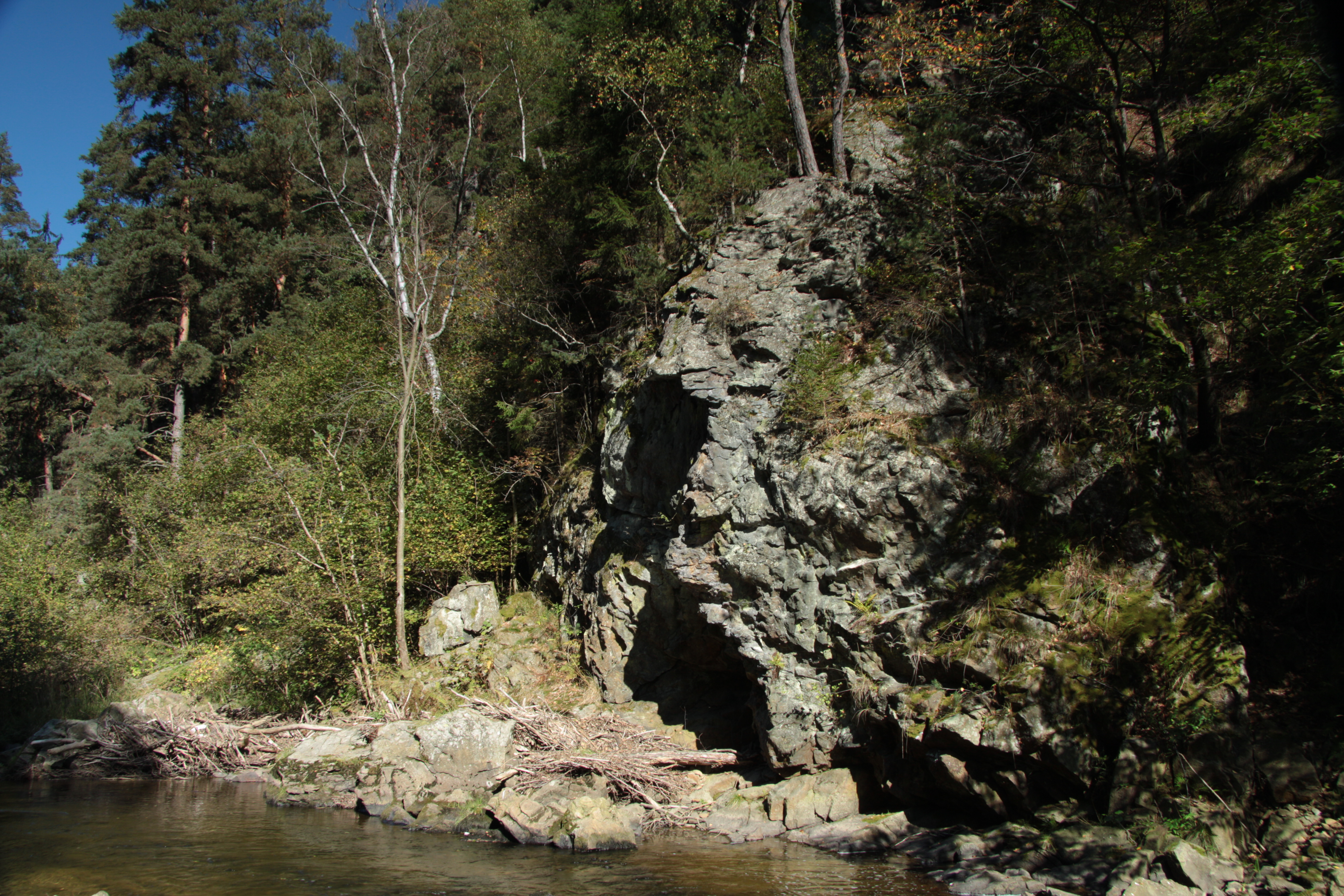 Natural monument Zábrdská skála near Zábrdí village in Prachatice District, Czech Republic Project: Chráněná území.